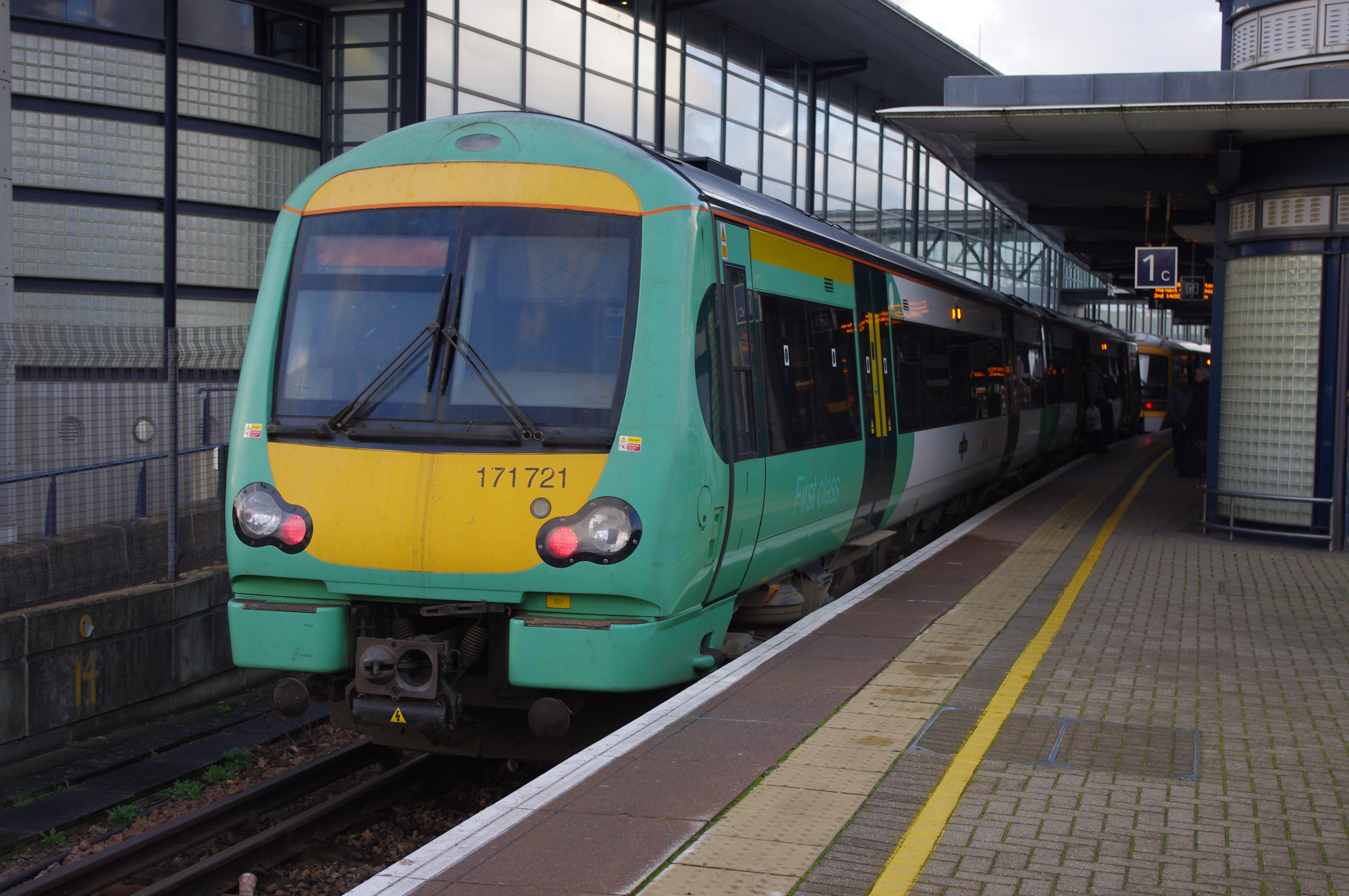 Southern Turbostar Class 171 No. 171721 stands at platform 1 at Ashford International having terminated 1G33, the 12:32 service from Brighton on Wednesday 30th November 2011.